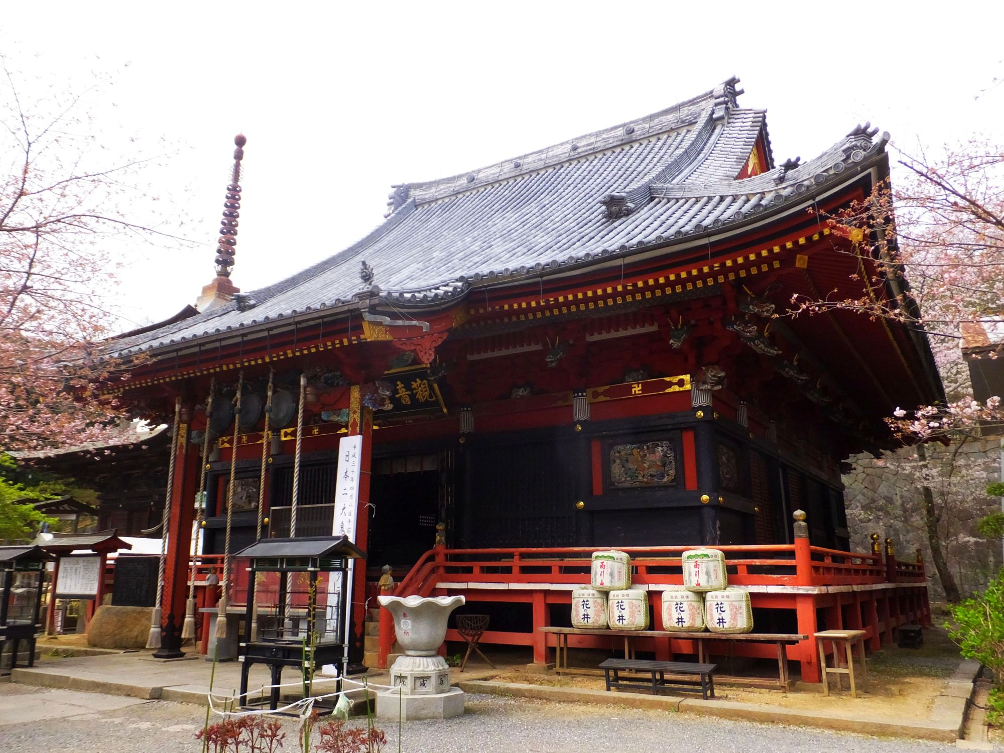 Main hall of Rakuhō-ji temple (Amabiki Kannon) in Sakuragawa, Ibaraki